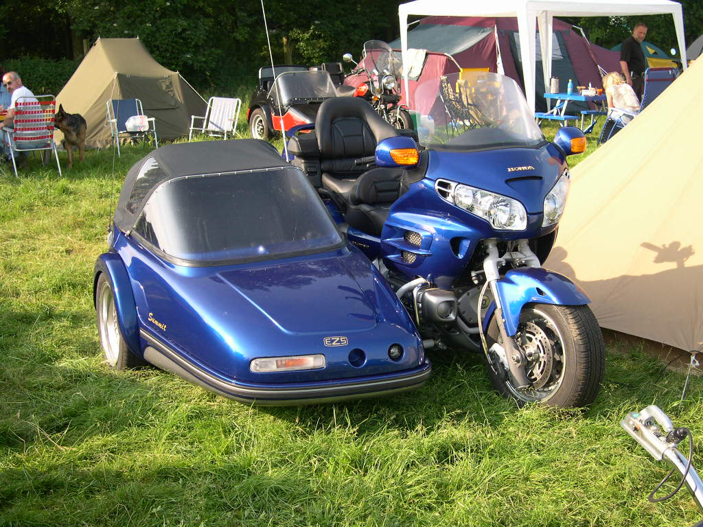 Sidecar: Honda Goldwing